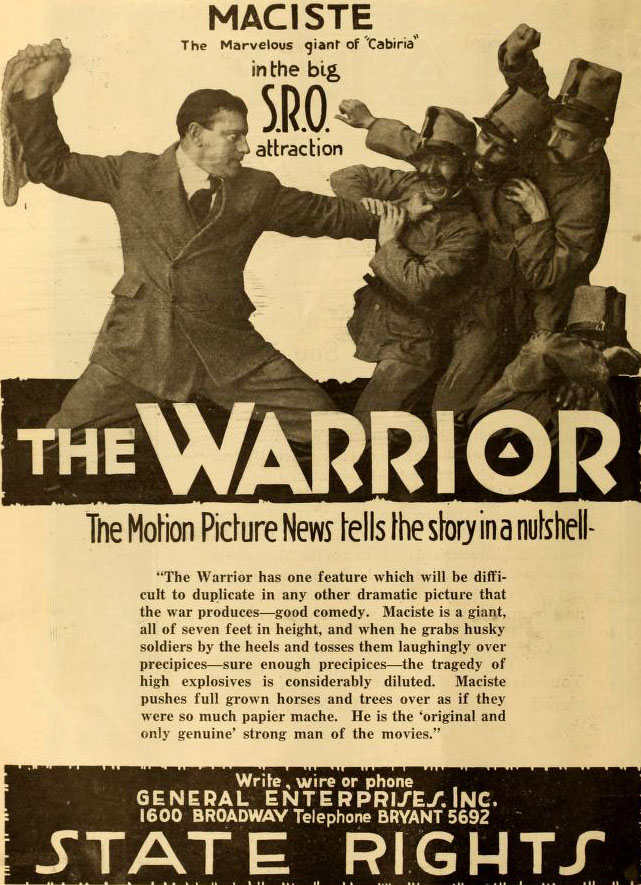 Advertisement in Moving Picture World for the Italian film Maciste alpino (1917) under the American title The Warrior with Bartolomeo Pagano.